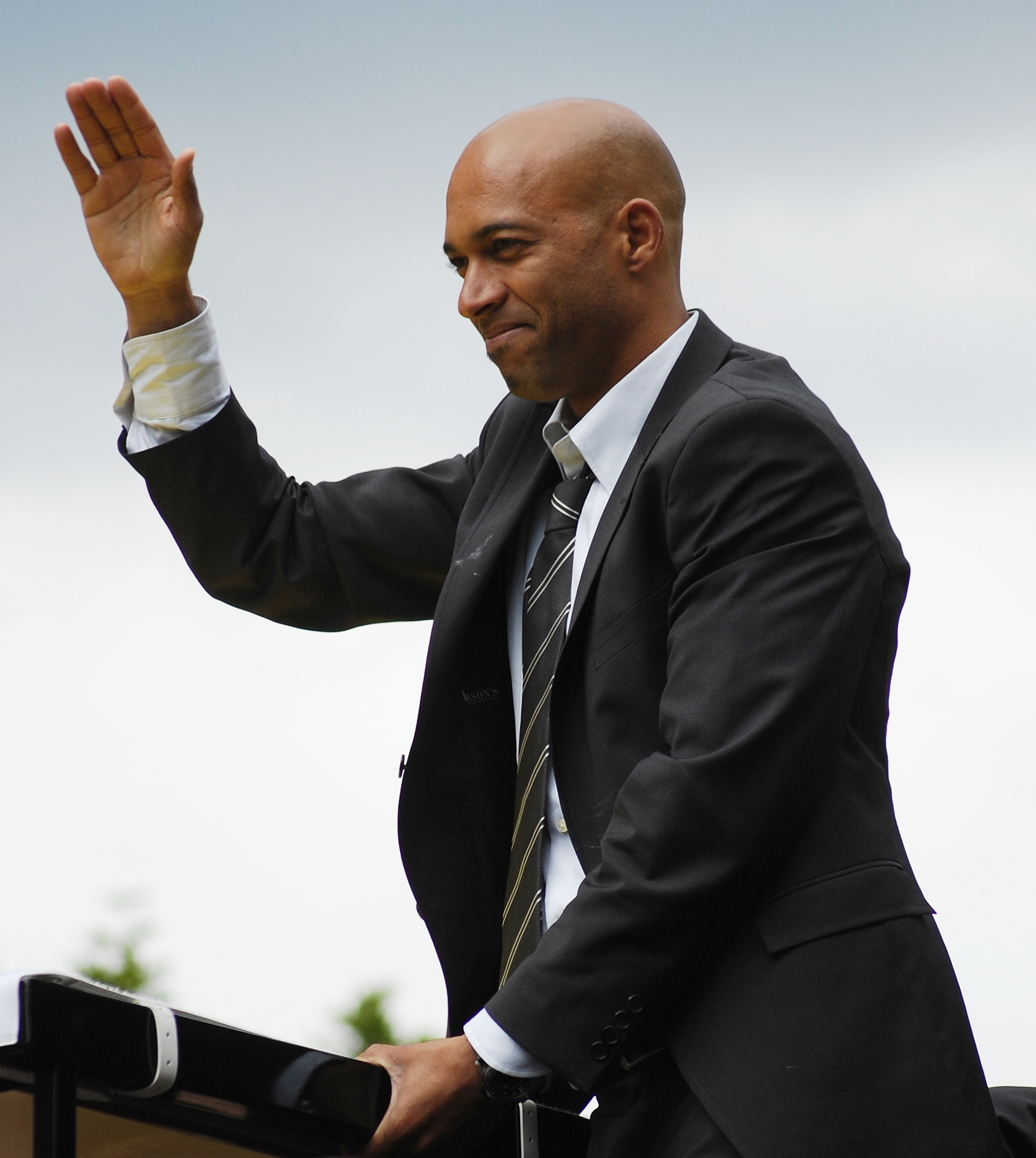 Leonardo de Deus Santos at Borussia Dortmund's Championship celebration 2011.